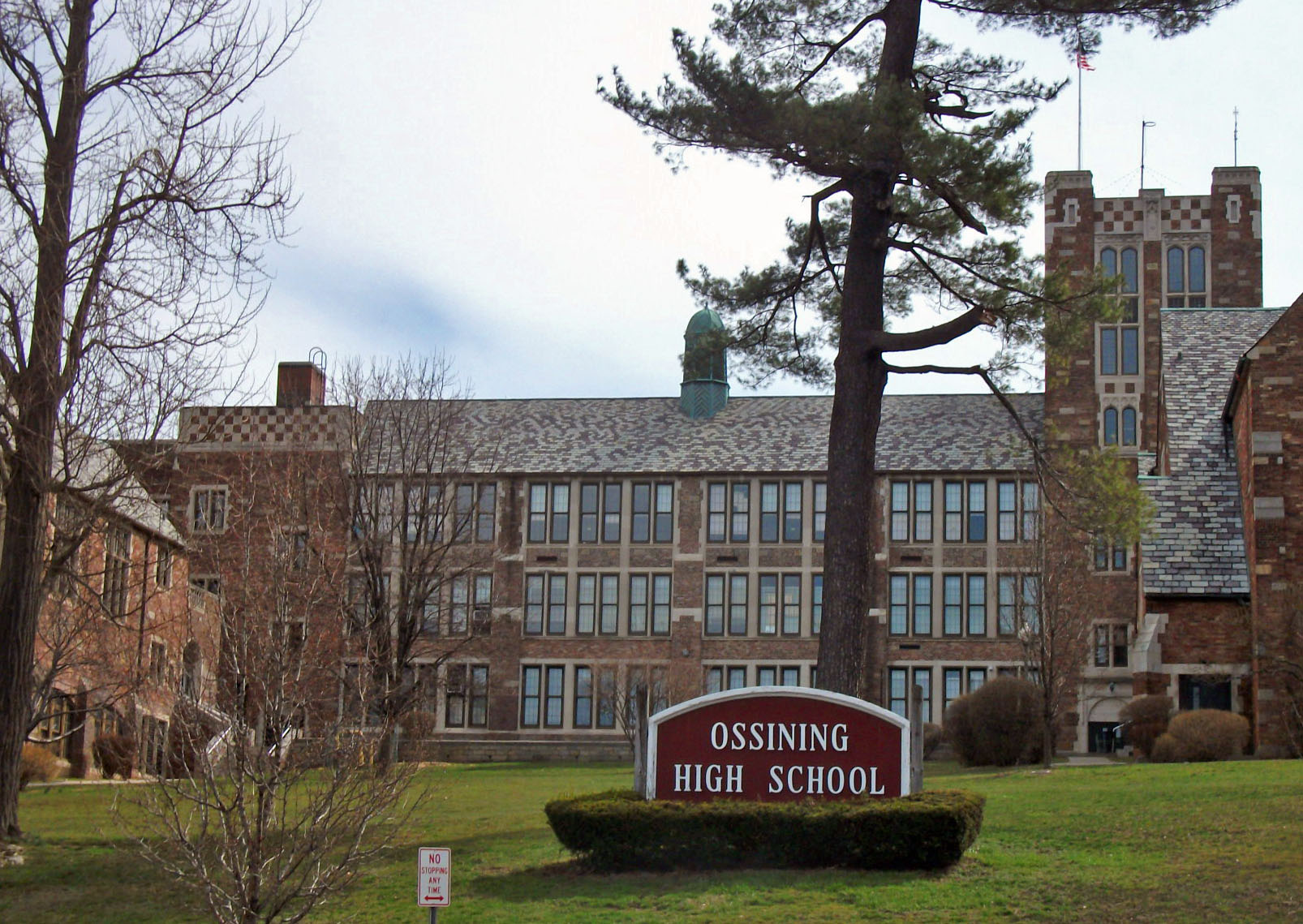 Ossining, NY, USA, High School, a contributing property to the Downtown Ossining Historic District